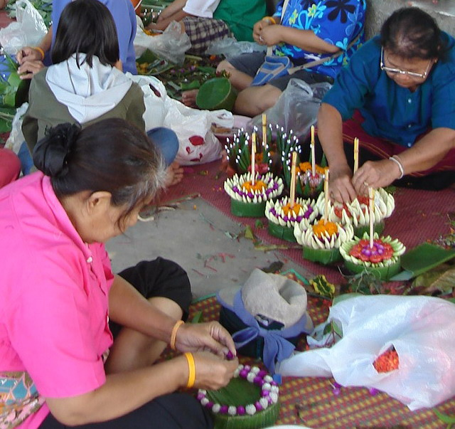 Loi krathong rafts.